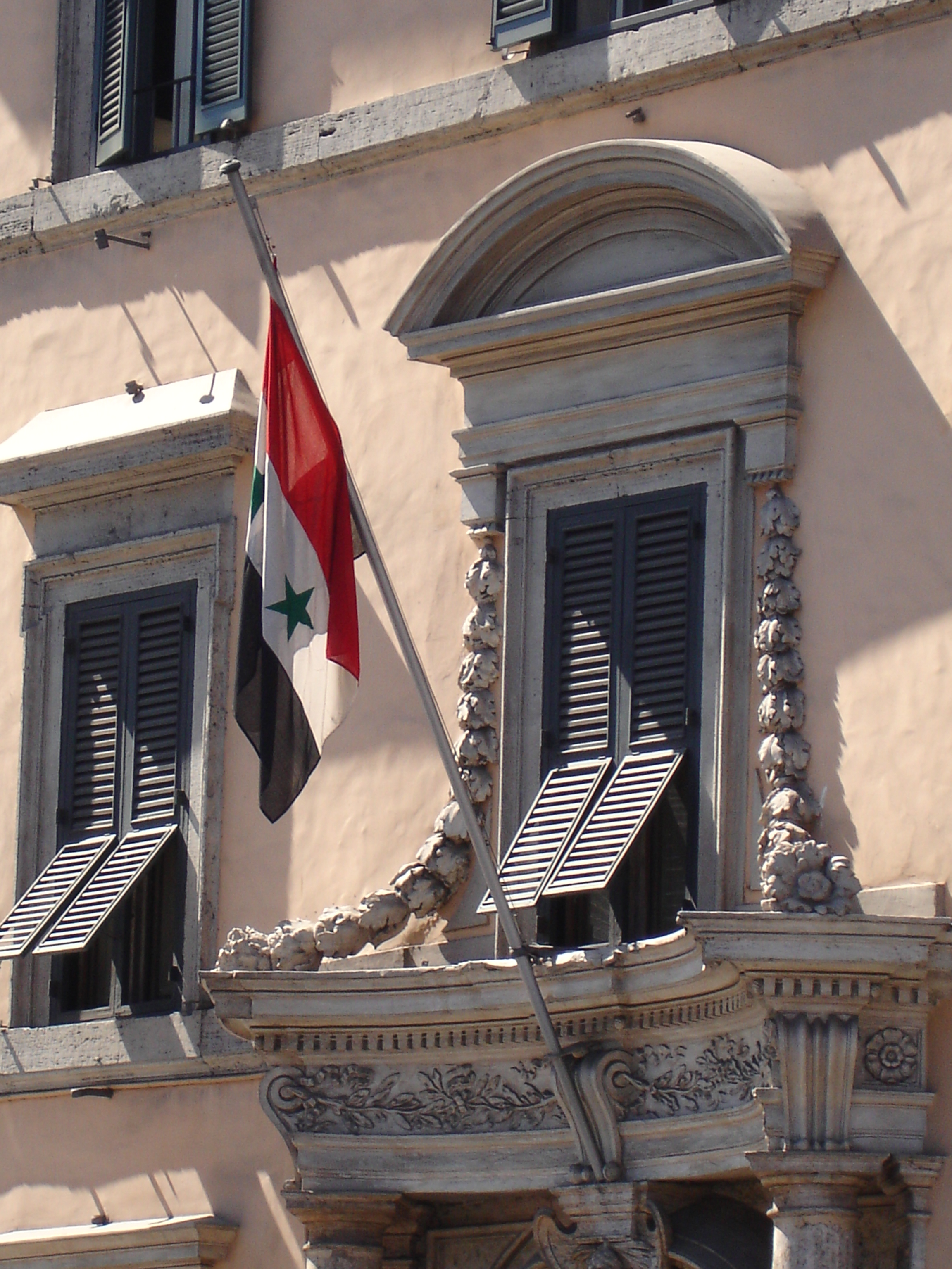 Flag of Syria at embassy in Rome/Italy